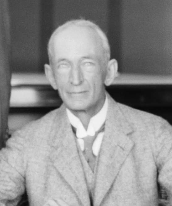 Sir Walter Sidney Shaw, the chairman of the Commission on the Palestine Disturbances of August 1929, commonly known as the Shaw Commission, that was established to investigate the 1929 Palestine riots which caused the deaths of 243 Jews and Arabs.